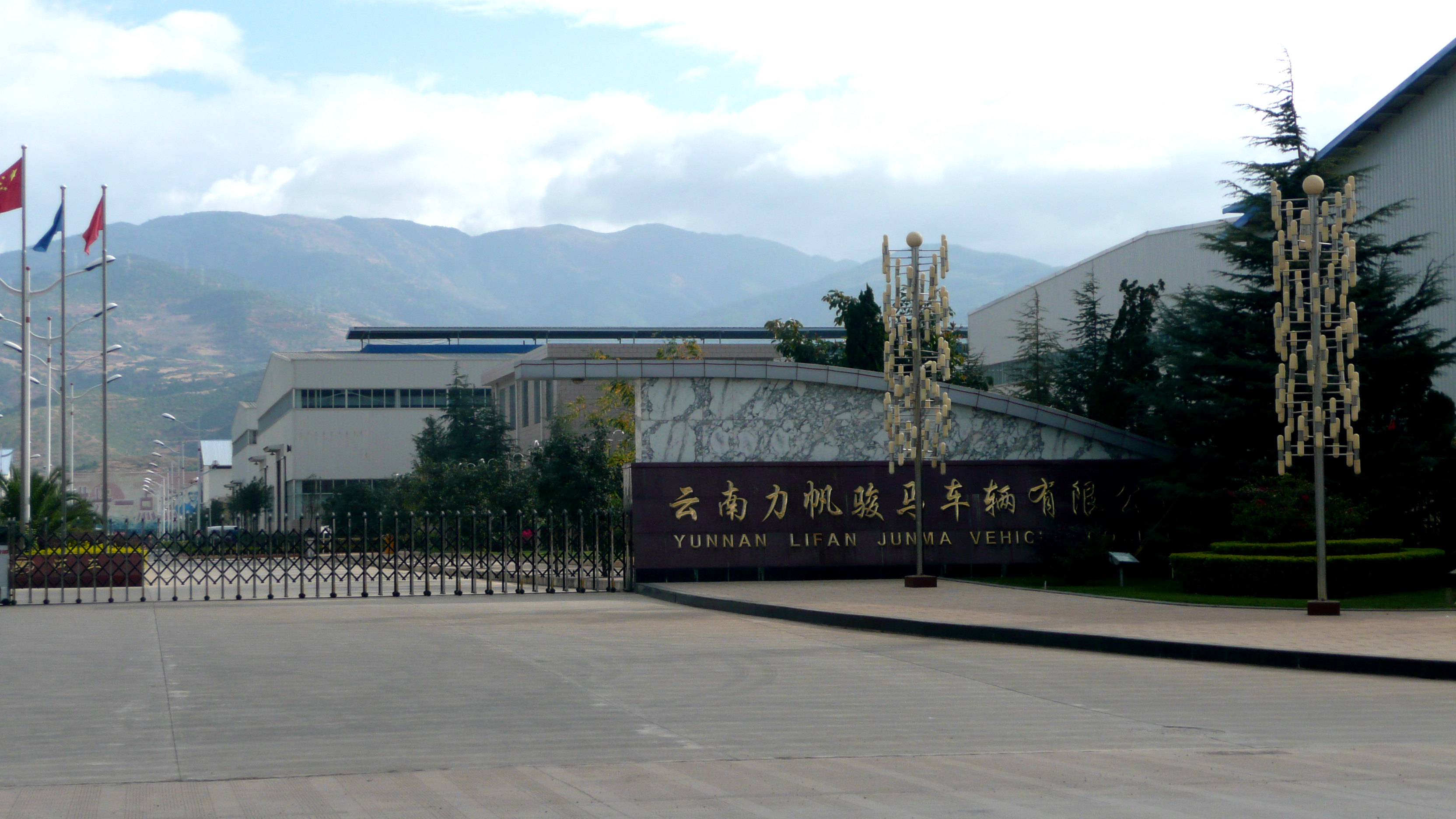 Yunnan Lifan Yunma Vehicle Co., Dali (Yunnan)